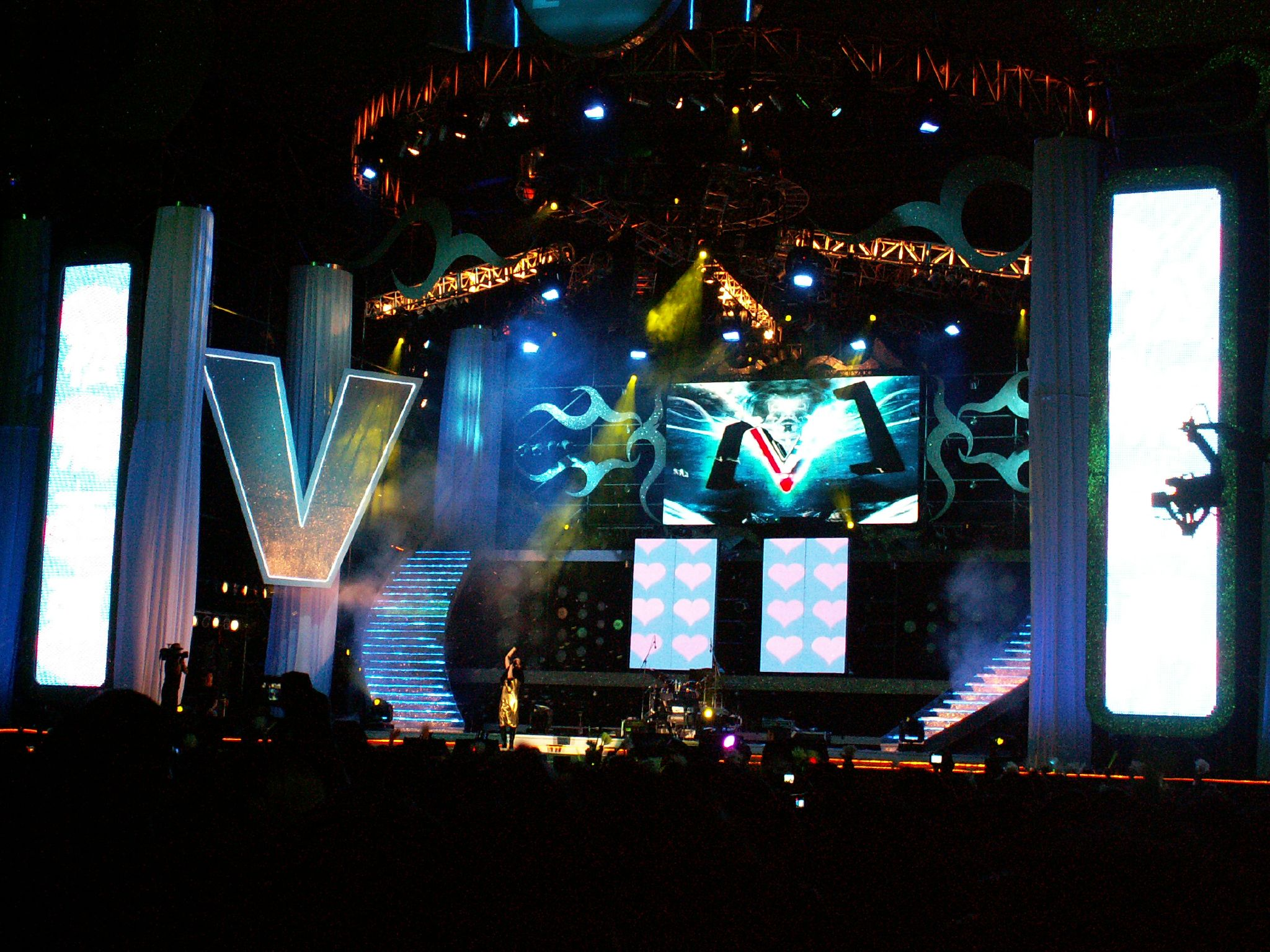 Aya Matsuura at V Power "Music Storm", December 9, 2006